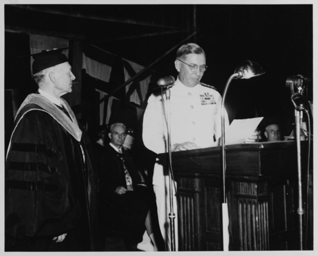 Rear Admiral Laurance T. DuBose, USN, Commandant of the 6th Naval District, reads the certificate given the University of South Carolina by the U.S. Navy for its outstanding training of men for the Naval service. Rear Admiral Norman M. Smith, USN ret., left, looks on. Fleet Admiral Chester W. Nimitz, CNO, was present and received the degree of doctor of civil law, 19 June 1946.